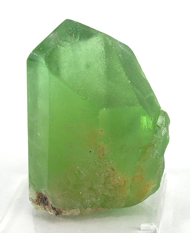 Olivine Locality: Naran-Kagan Valley, Kohistan District, North-West Frontier Province, Pakistan (Locality at ) Size: miniature, 3.4 x 2.5 x 1.9 cm (28 grams) Peridot This is from a new find of peridots at this now-classic locality which has produced the world's best crystals of the species by far. The color is just a REALLY JUICY LIMEY-GREEN COLOR the likes of which you seldom see. The crystal is very gemmy and translucent to transparent throughout, as well, so it is better in person than the photos indicate. I know these have been comin gout for years now, but THIS type is different - just a bit more vibrant in color, overall, and with great terminations. This was one of the few miniatures I picked up for a mix of form and color quality. There are a few very insignificant dings, and one contact on the left side. It is otherwise complete all around.